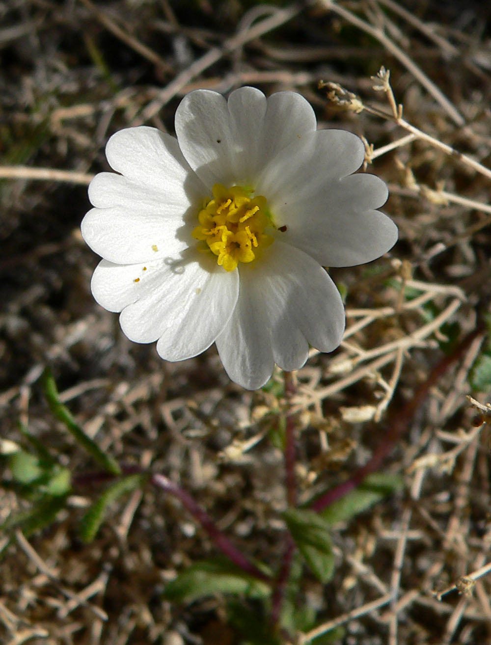 Layia glandulosa — Whitedaisy tidytips. On Cima Dome near Teutonia Peak, Mojave National Preserve, Mojave Desert, California.